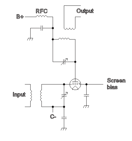 A example of a poorer design for a tetrode RF power amp which is being used to explain some RF designs